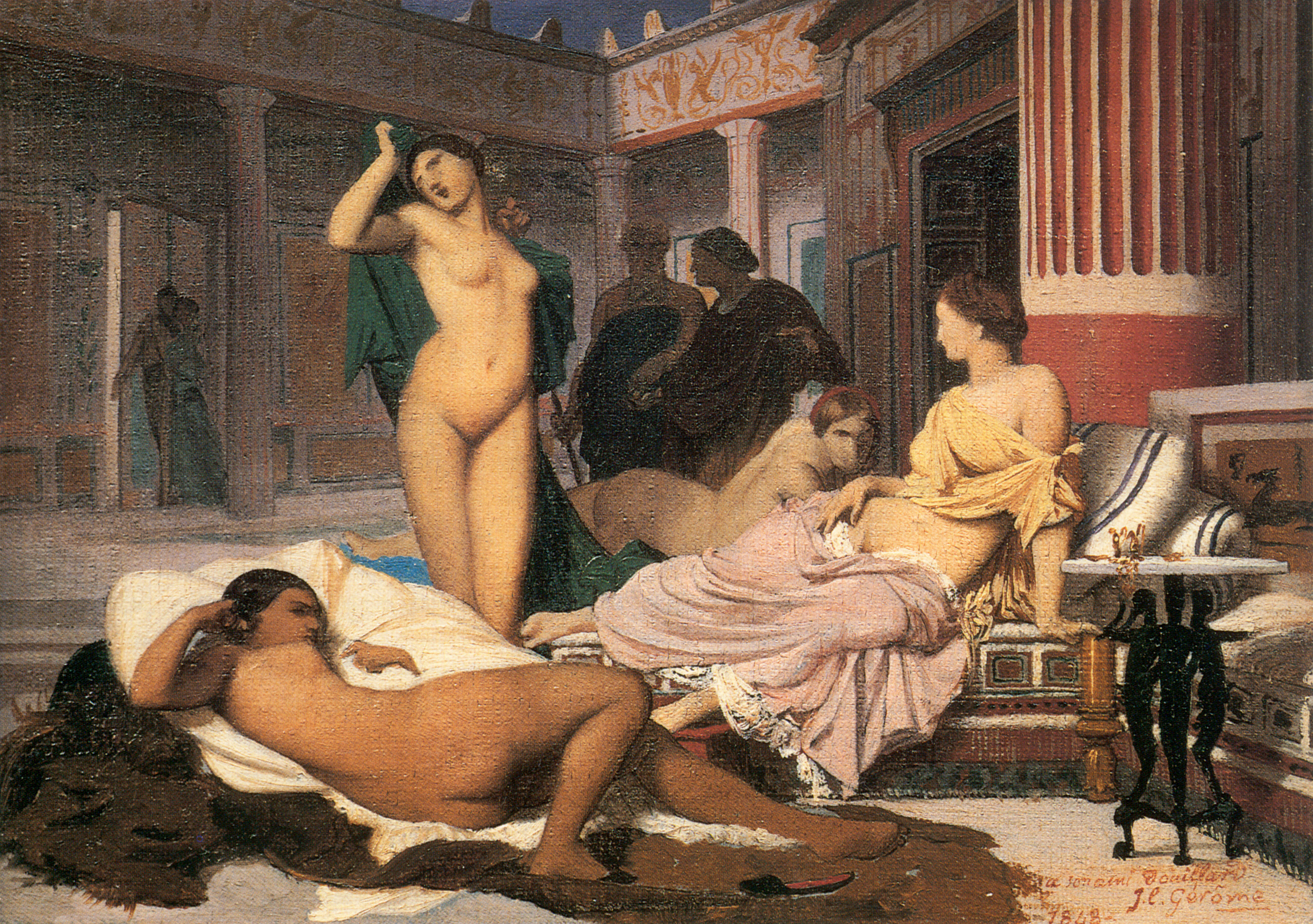 sketch by Jean-Léon Gérôme